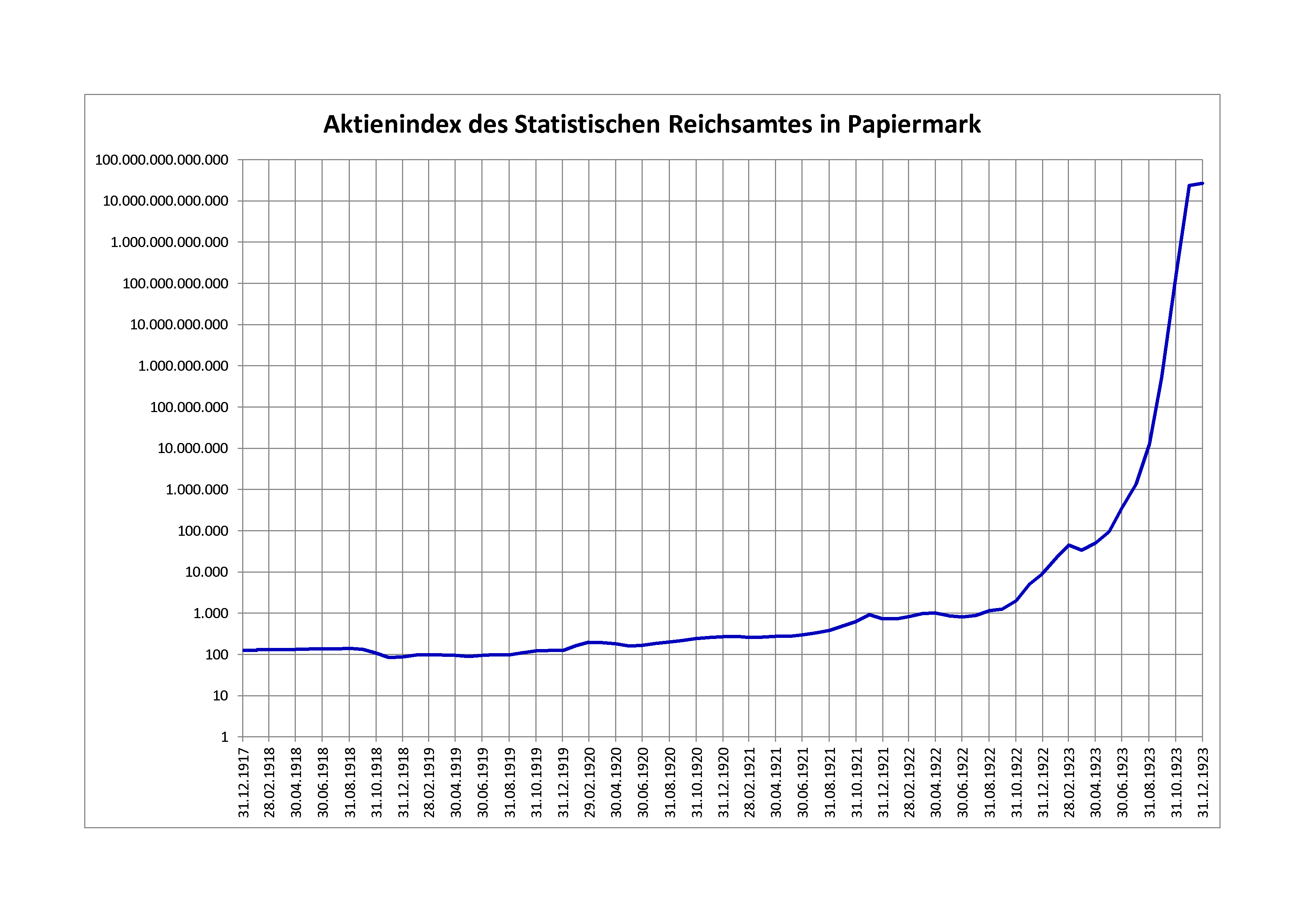 Stock market index of the Statistisches Reichsamt (Statistical Office) in German Papiermark (paper mark) from January 1918 to December 1923 (monthly average prices)